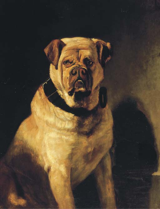 A mastiff